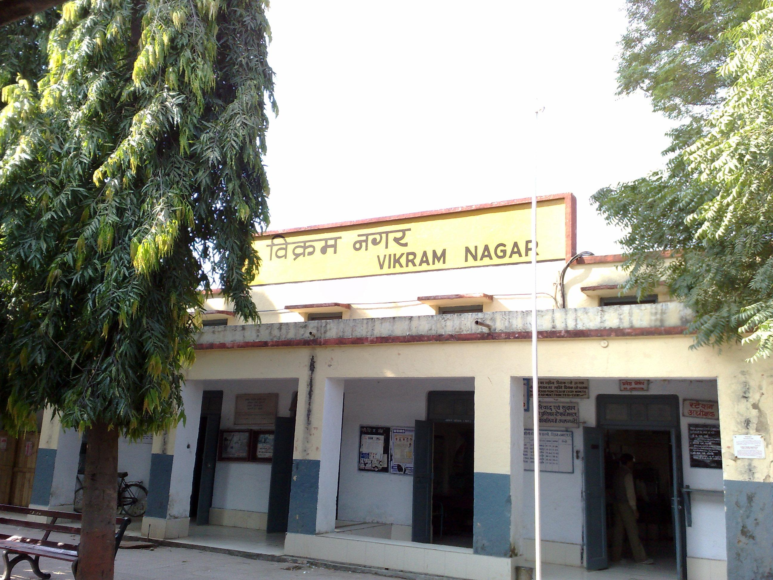 Vikramnagar (2)